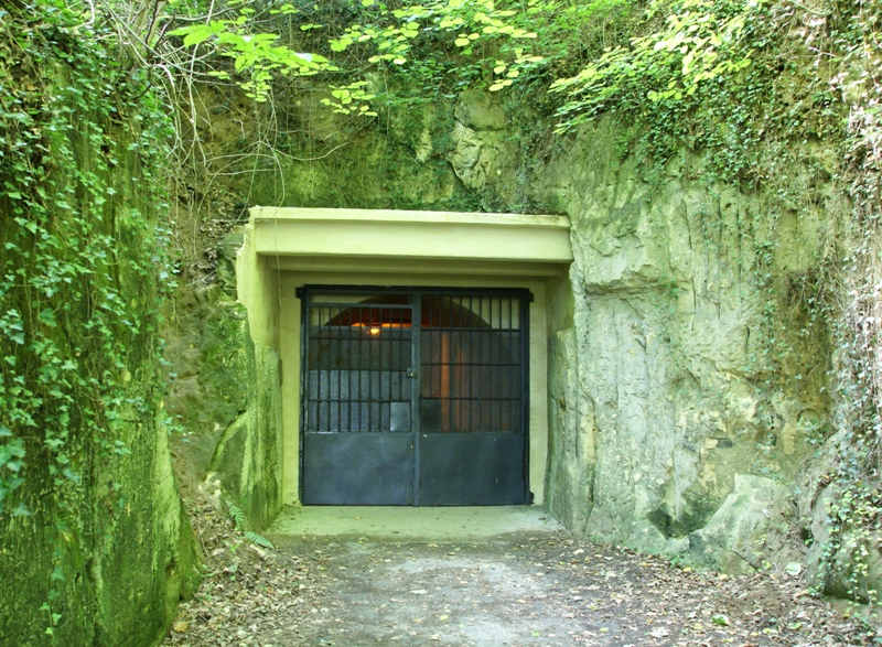 Jezuïetenberg - entrance - Maastricht, The Netherlands.